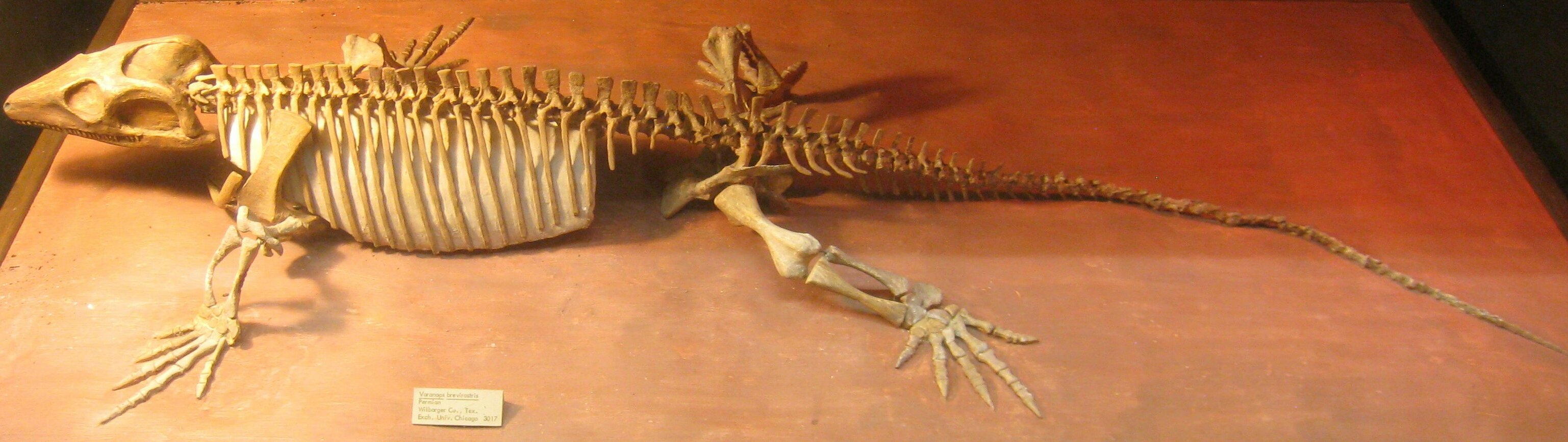 Cropped image of taxon in file name